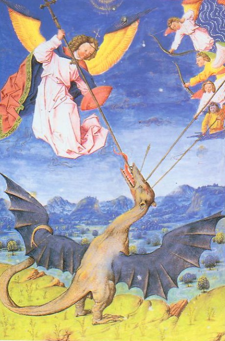 Saint Michael and the angels fighting the Wyvern. MS. 724/1596 f.15r St. Michael and the Angels fighting the dragon, from 'Liber Floridus' by Lambert de Saint-Omer, c.1448 (vellum)